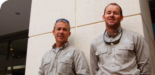 Roland Jourdain et Jean-Luc Nelias